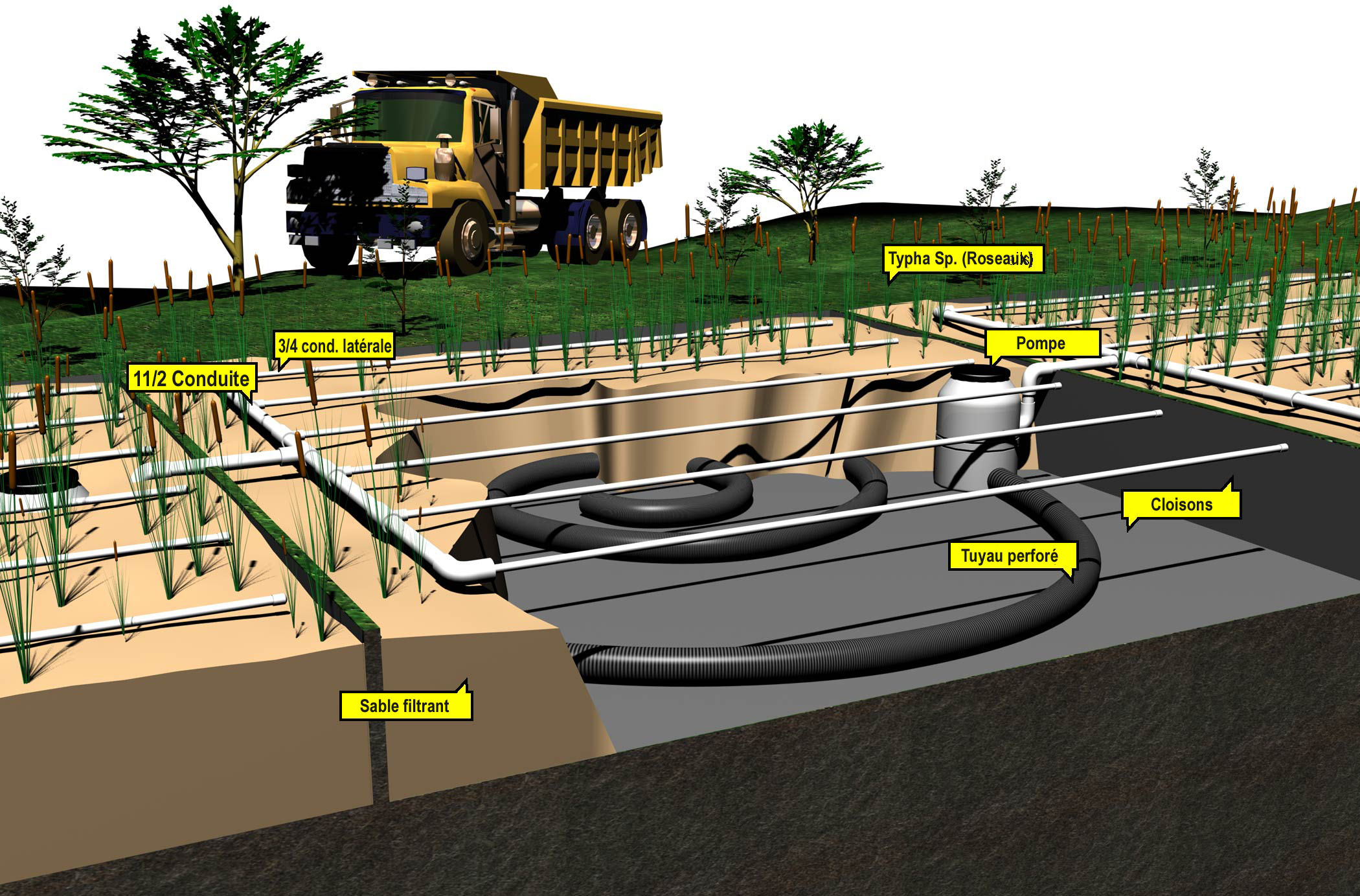 Aqua Treatment Technologies ; constructed wetland (or wetpark) = artificial marsh or swamp, created for anthropogenic discharge such as wastewater, stormwater runoff or sewage treatment, and as habitat for wildlife, or for land reclamation after mining or other disturbance. Natural wetlands act as biofilters, removing sediments and pollutants such as heavy metals from the water, and constructed wetlands can be designed to emulate these features.